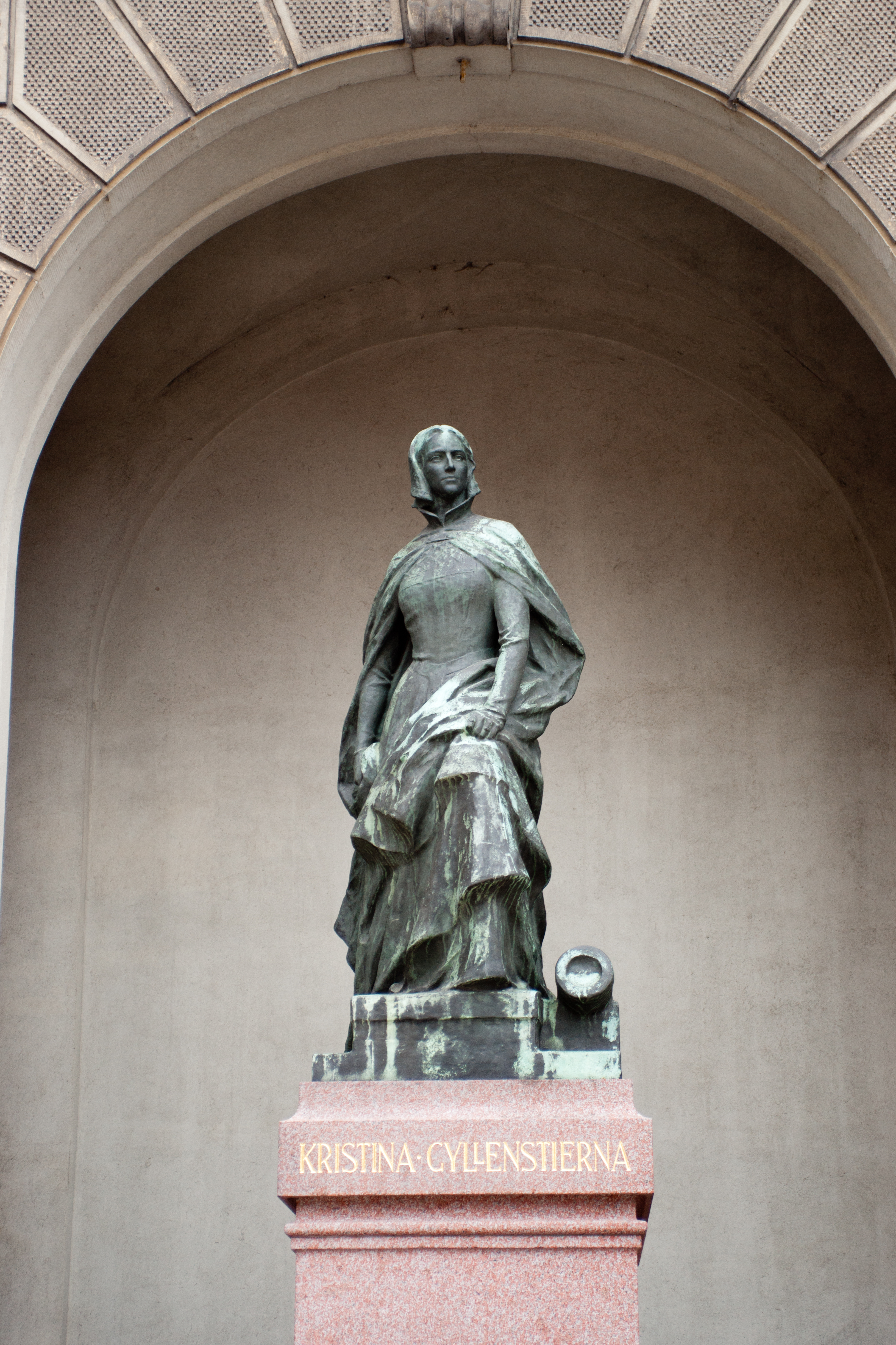 Statue of Christina Gyllenstierna, Royal Palace, Stockholm.